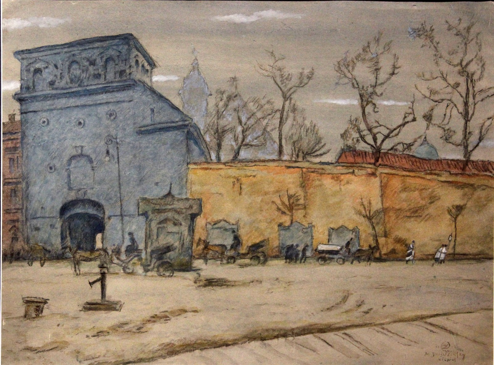 Добужинский М. В. Вильно (Вильнюс). 1914 Бумага, смешанная техника Из частной коллекции (Минск)